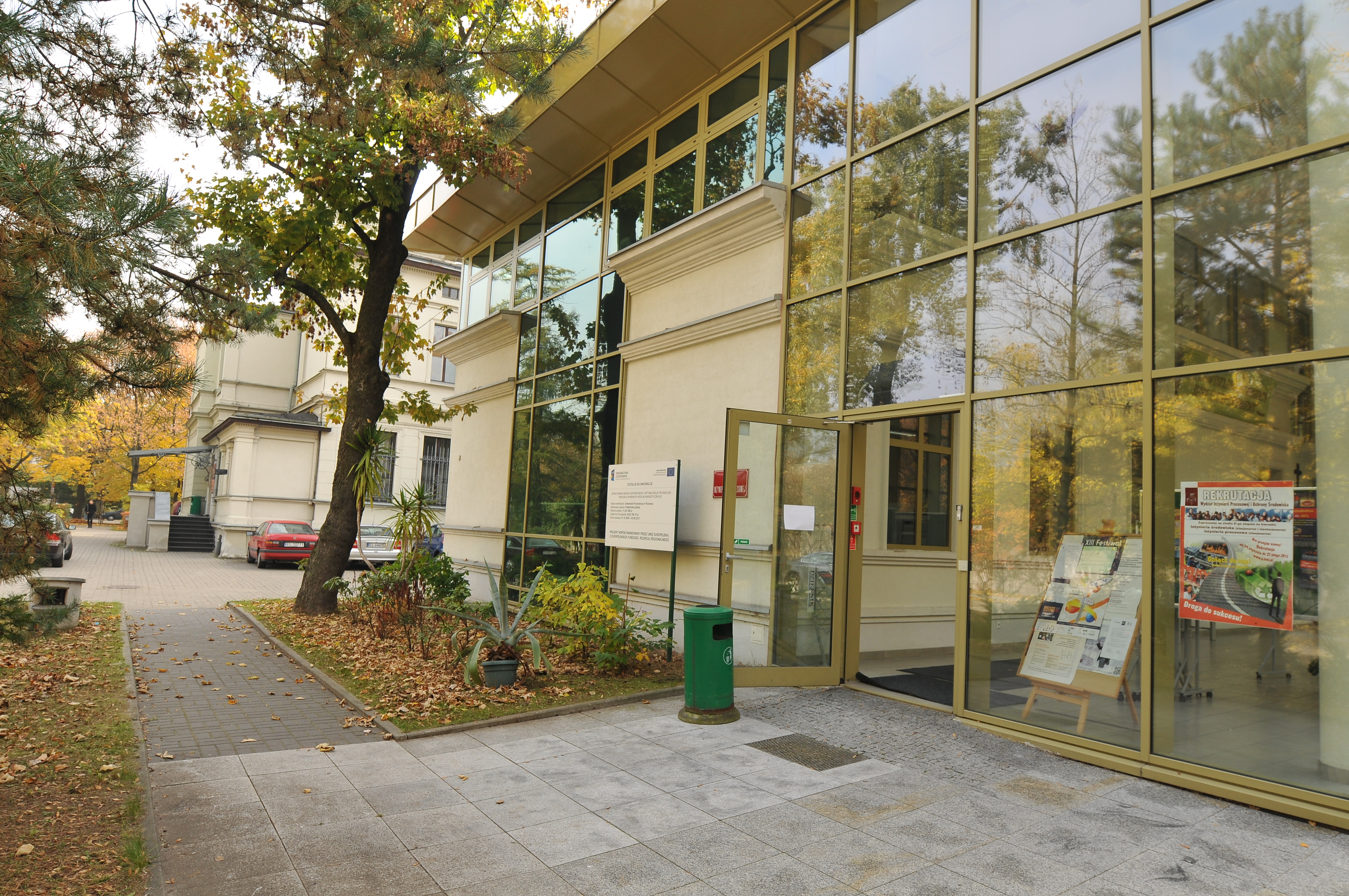 Buildings of Bioprocess Engineering Department and Dean's Office - Faculty of Process and Environmental Engineering, Lodz University of Technology (view from the north)